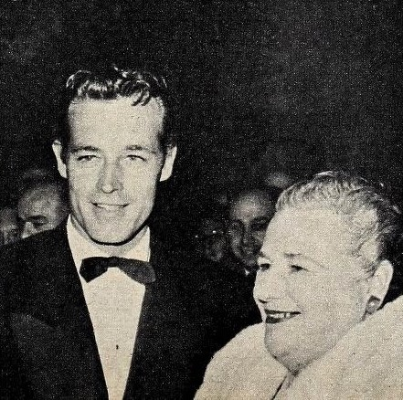 Guy Madison with agent Helen Ainsworth, 1954